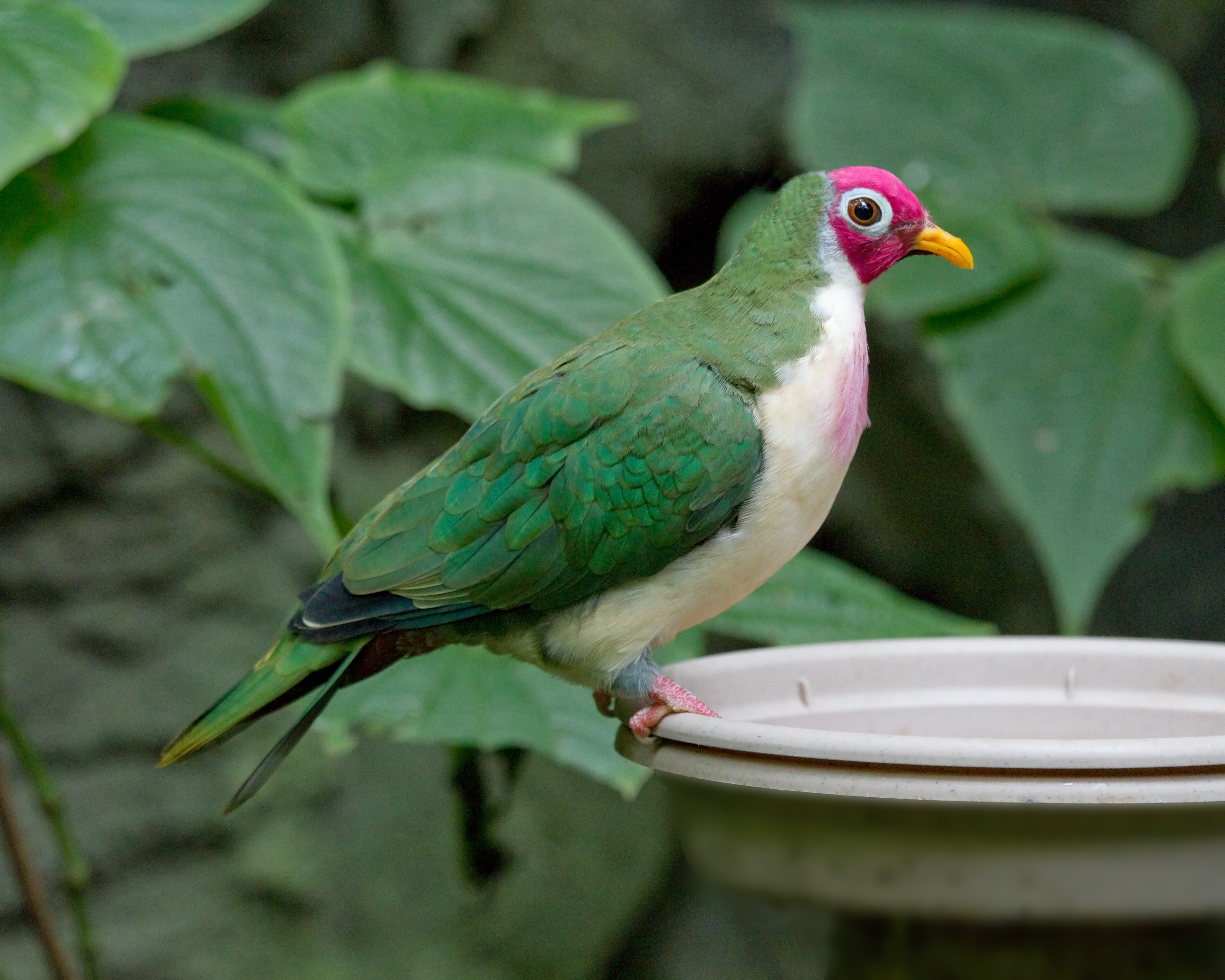 Ptilinopus jambu at the Cincinnati Zoo.